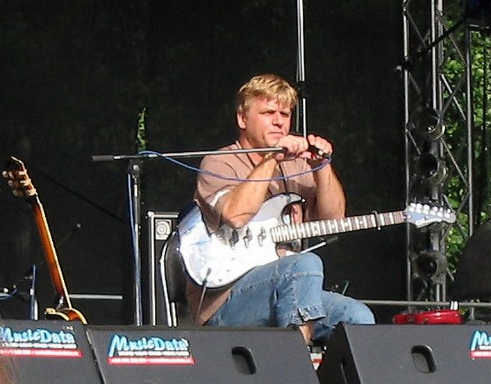 Karel Plíhal during a concert in Okoř Festival 2004 (a crop from a small photo, thus the poor quality of the image)